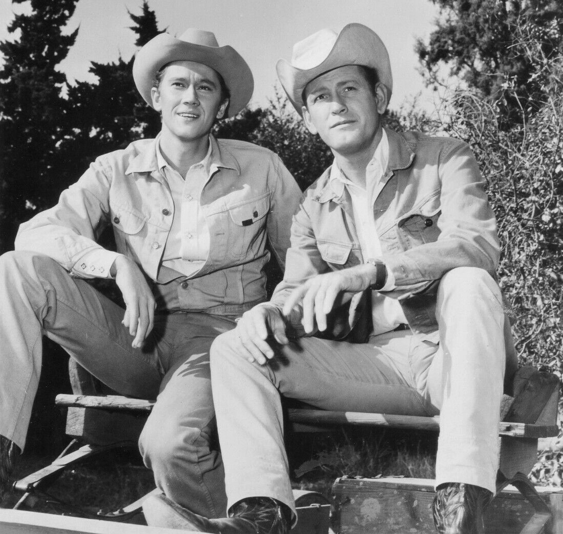 Publicity photo of Andrew Prine and Earl Holliman in The Wide Country.